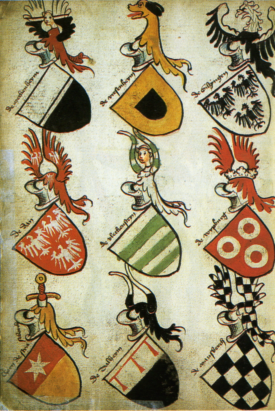 The German Hyghalmen Roll from the late fifteenth century. This roll is currently in the possession of the College of Arms after it was given to them by Thomas Benolt, former Clarenceux King of Arms, its previous owner.